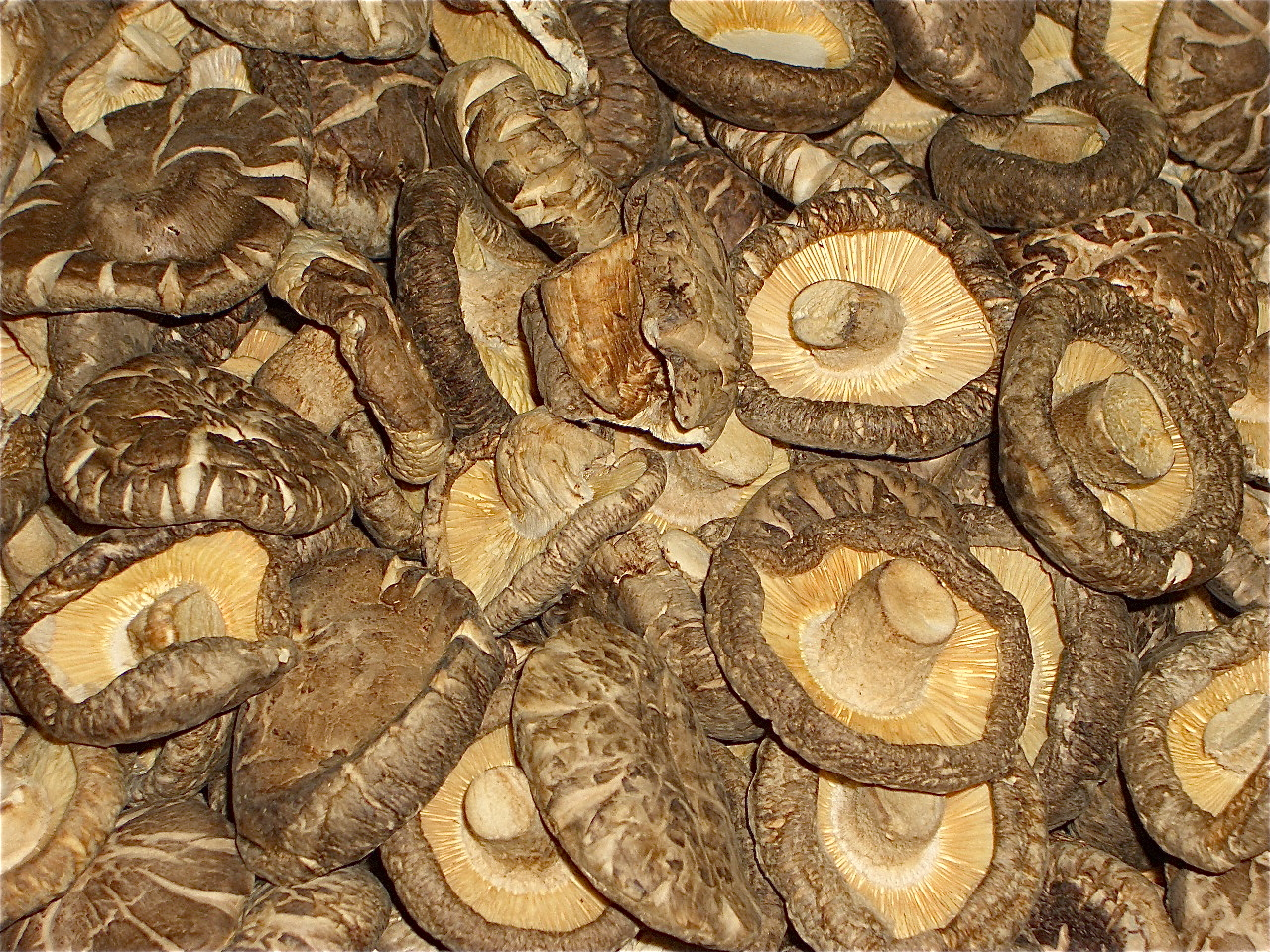 dried shiitake mushrooms, dried Chinese mushrooms, dried black mushrooms (Lentinus erodes)